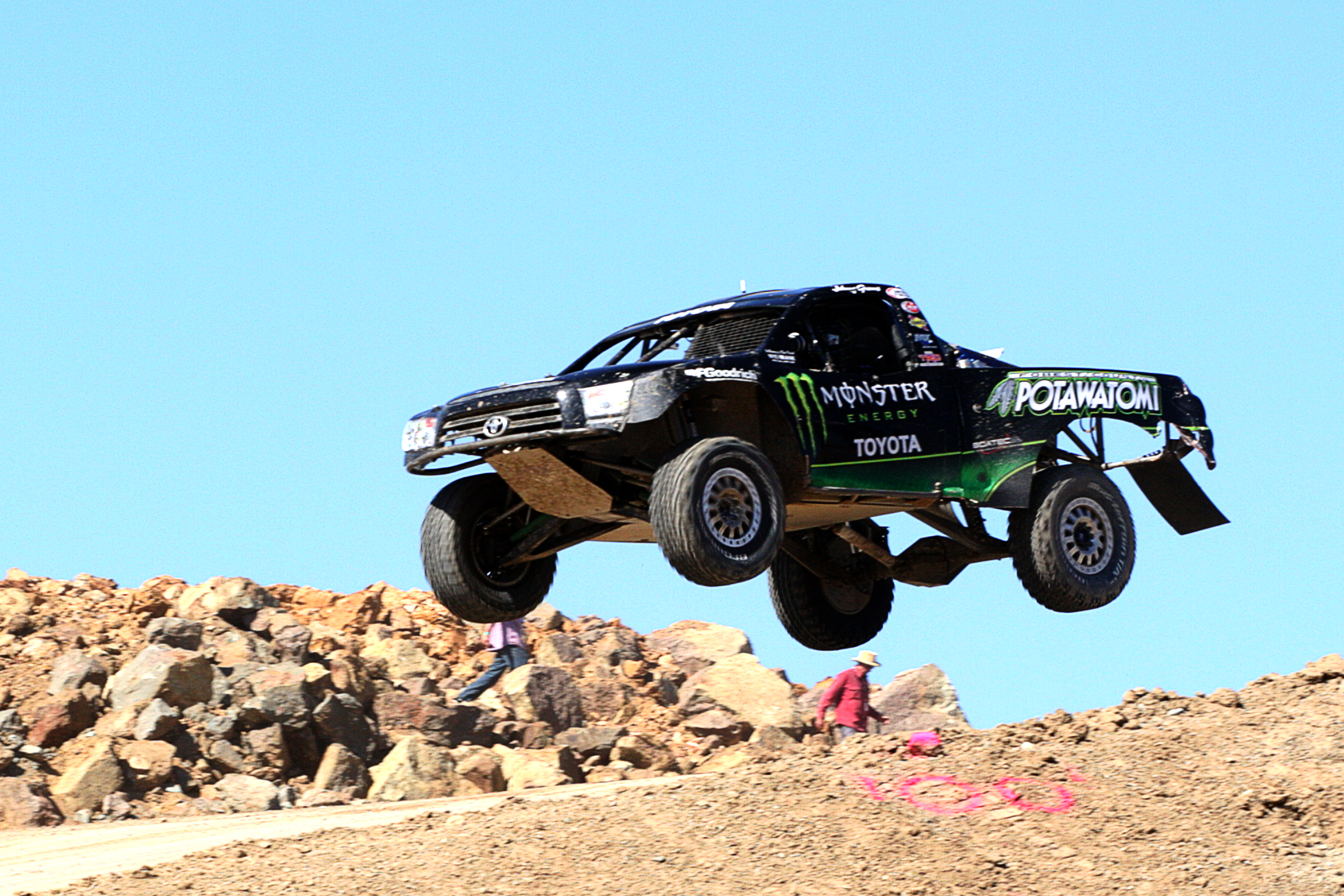 Johnny Greaves (racer) 2007 CORR off-road racing truck at the event at Chula Vista, California.